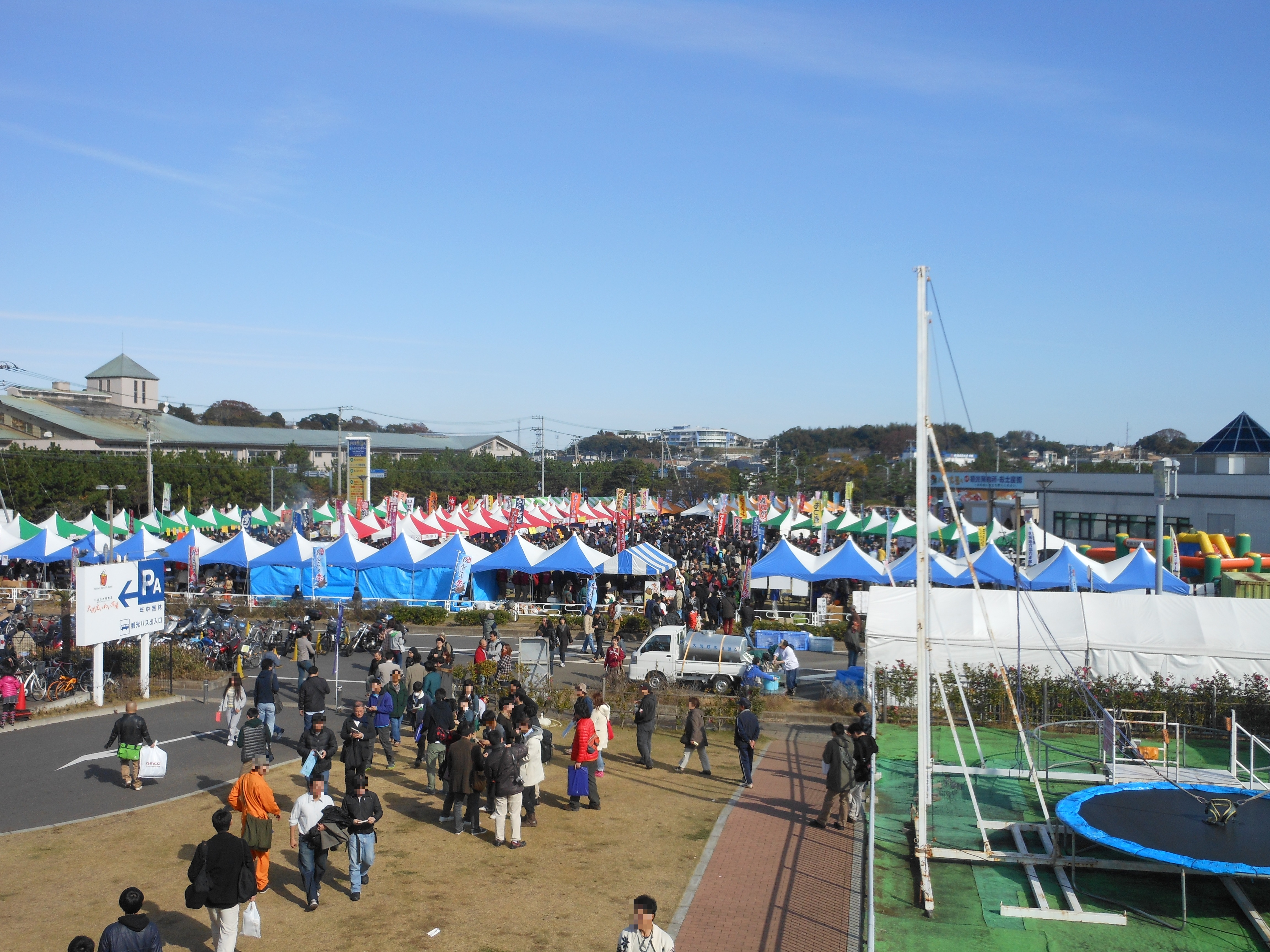 This is one scene of Oarai Anglerfish Festival 2014 at Oarai, Ibaraki, Japan.